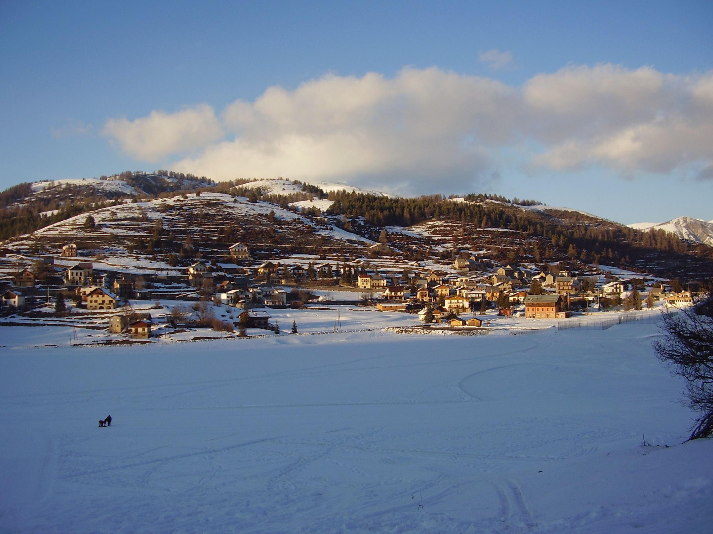 Les Launes, Alpes-Maritimes, France.